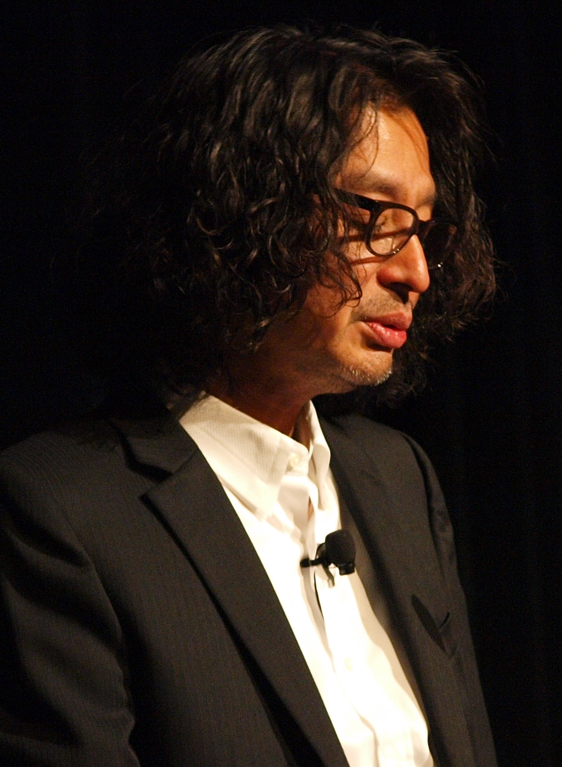 Yoshio Sakamoto at the Game Developers Conference in 2010 (third day), speaking at "From Metroid to Tomodachi Collection to WarioWare: different approaches for different audiences". Lossless crop of original photograph.